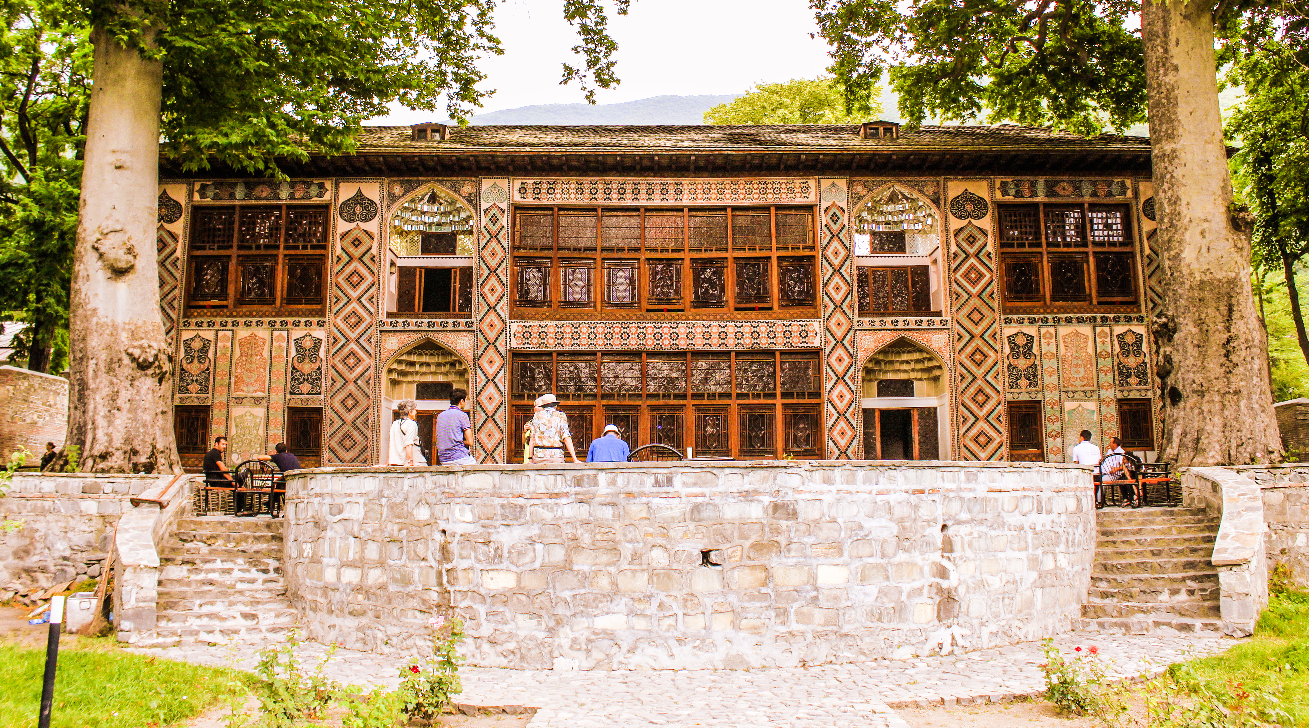 Shaki khan palace façade